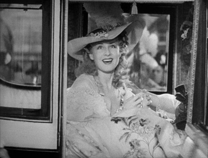 Cropped screenshot of Norma Shearer as Queen Marie-Antoinette from the trailer for the film Marie Antoinette (1938).